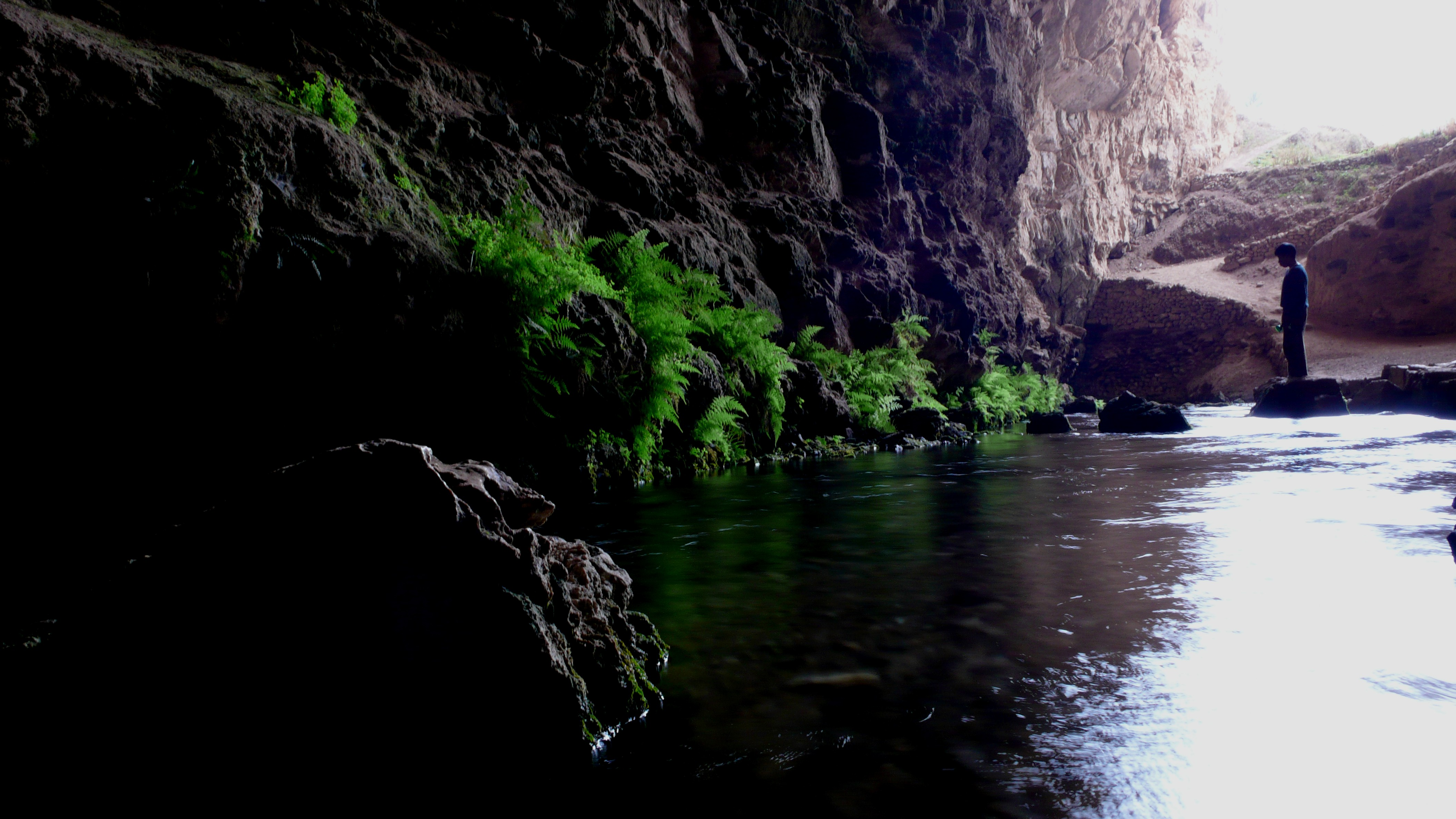 Cave of Huagapo (Tarma), considered the deepest of South America.